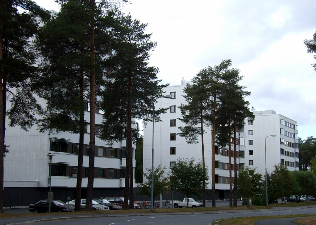 The Kihokkitie street in Lintula neighborhood in Oulu, Finland.